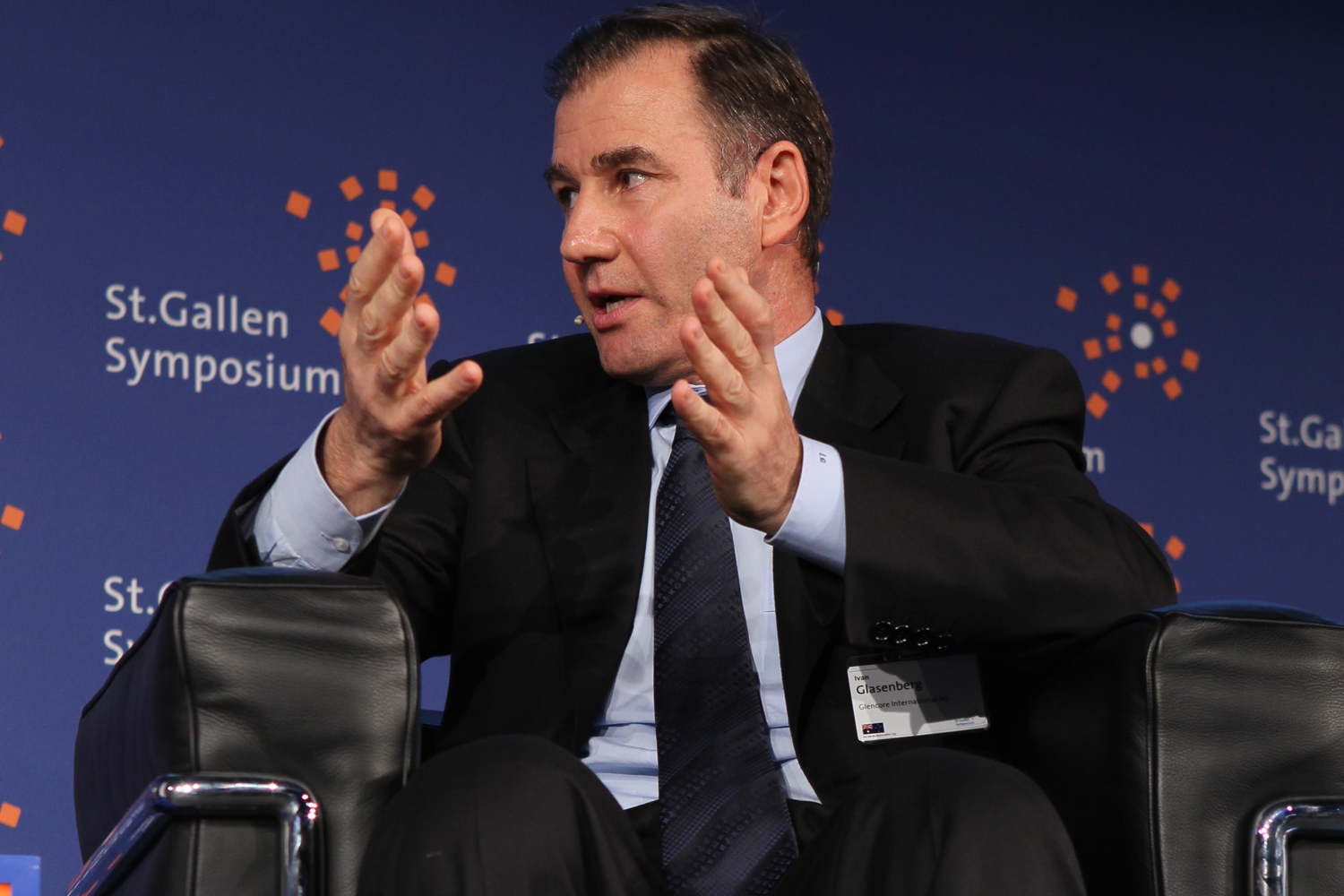 Ivan Glasenberg in May 2012 during a plenary debate at the 42. St. Gallen Symposium at the University of St. Gallen.